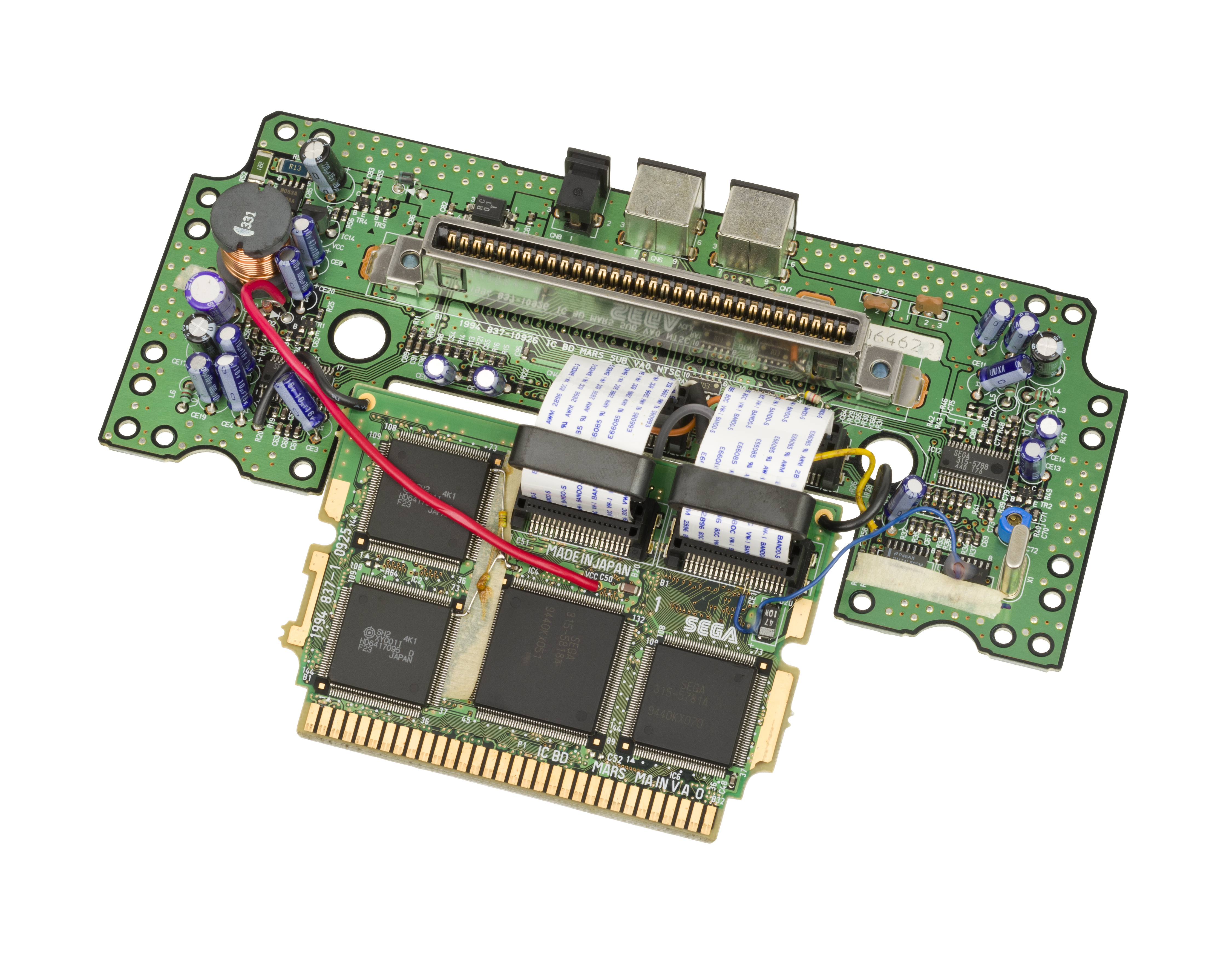 The motherboard of the Sega 32X, a short-lived add-on for the Sega Genesis/Mega Drive video game console that was introduced in 1994. This device added two 32-bit processors to the Genesis/Mega Drive and allowed for games with better graphics and more colors.